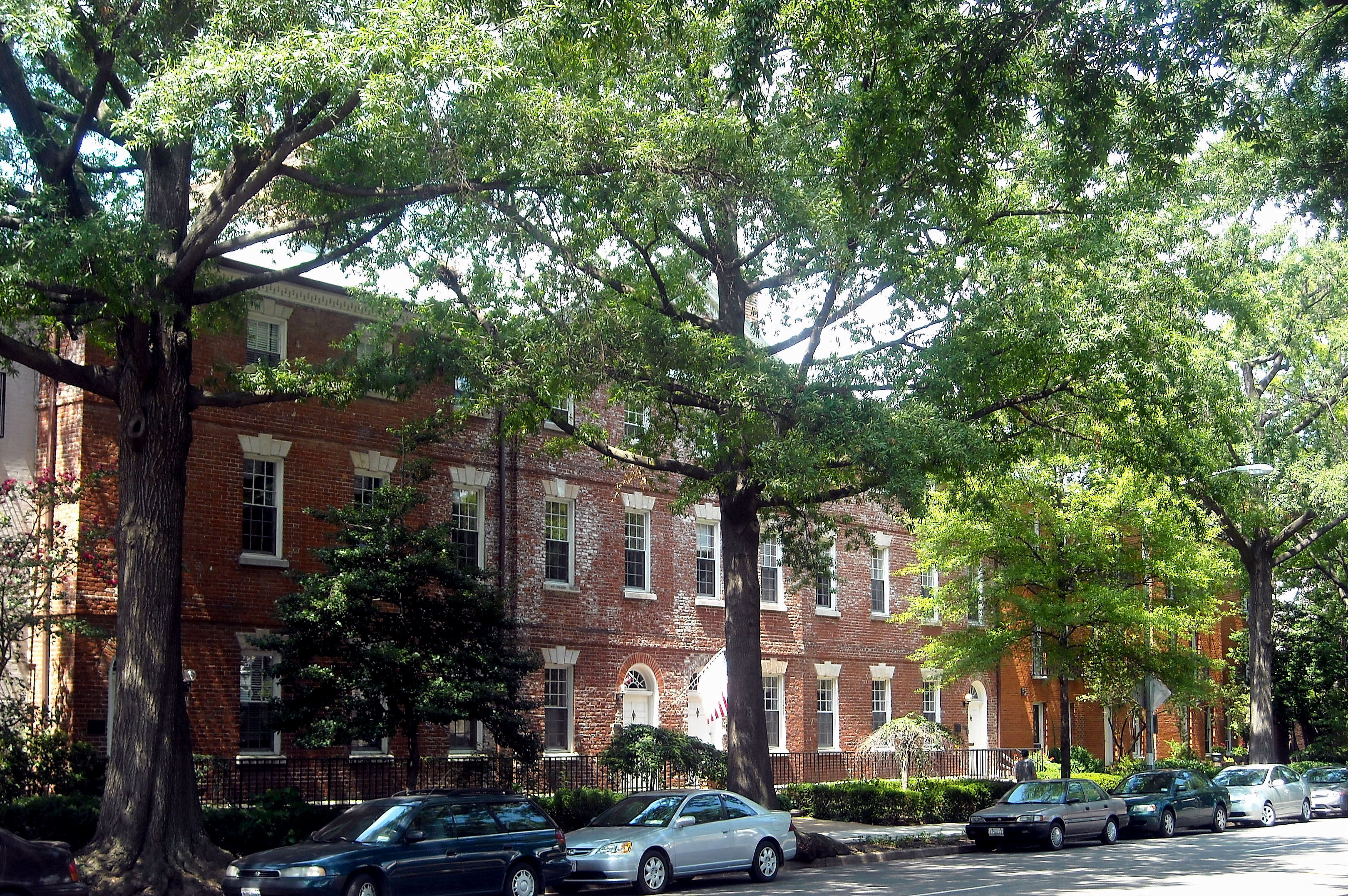 Wheat Row (four houses) located at 1315, 1317, 1319, and 1321 4th Street, SW in the Southwest Waterfront neighborhood of Washington, D.C. Constructed in 1794 for real estate developer James Greenleaf, Wheat Row was designed by William Lovering and is an example of Late Georgian architecture. Although most buildings in Southwest were demolished in the 1950s and 1960s, Wheat Row was spared and incorporated into the Harbour Square development. The homes on Wheat Row are believed to be the first row houses built in Washington, D.C. and are listed on the National Register of Historic Places.